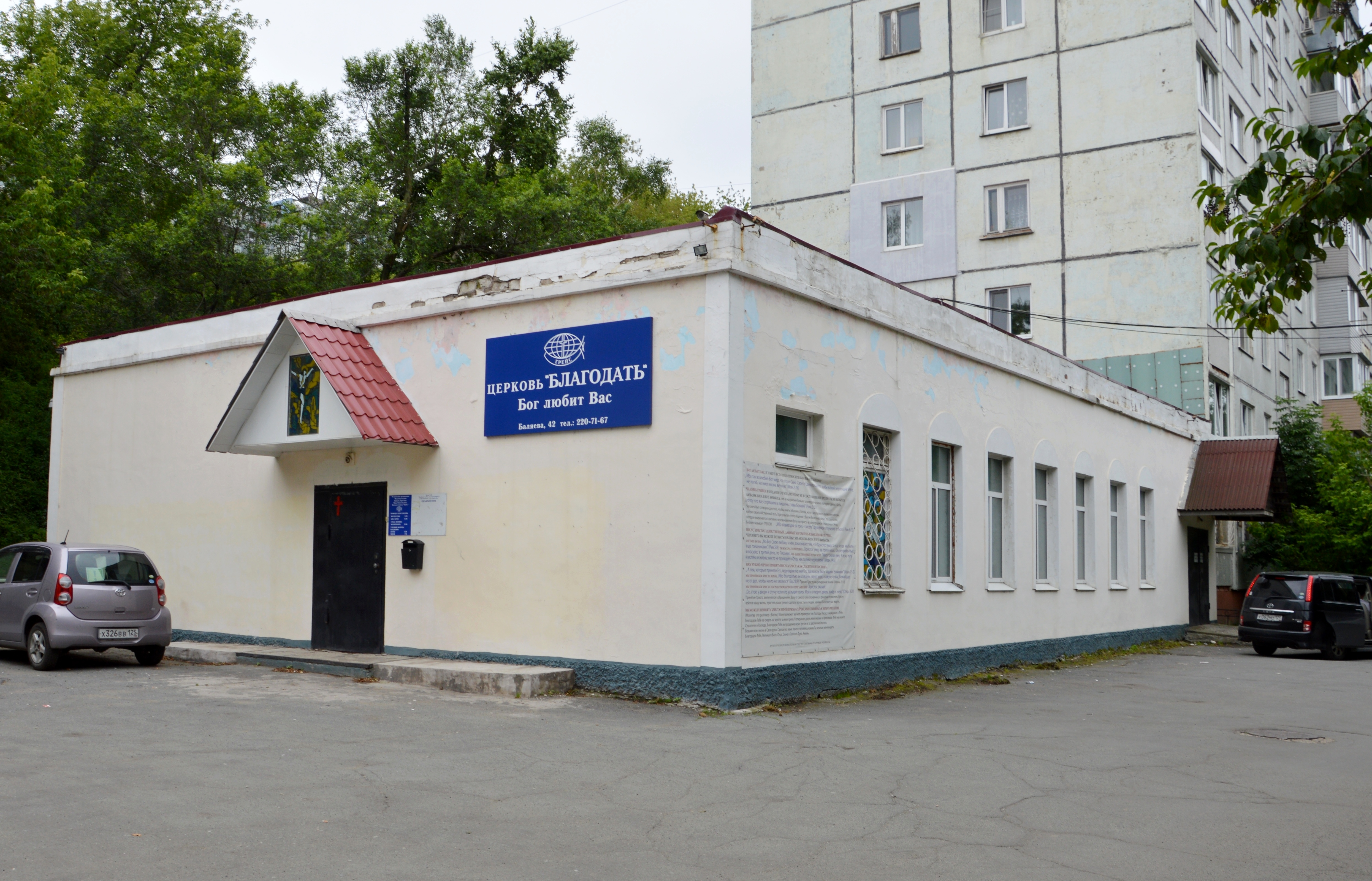 The Pentecostal church "Grace" (Vladivostok)